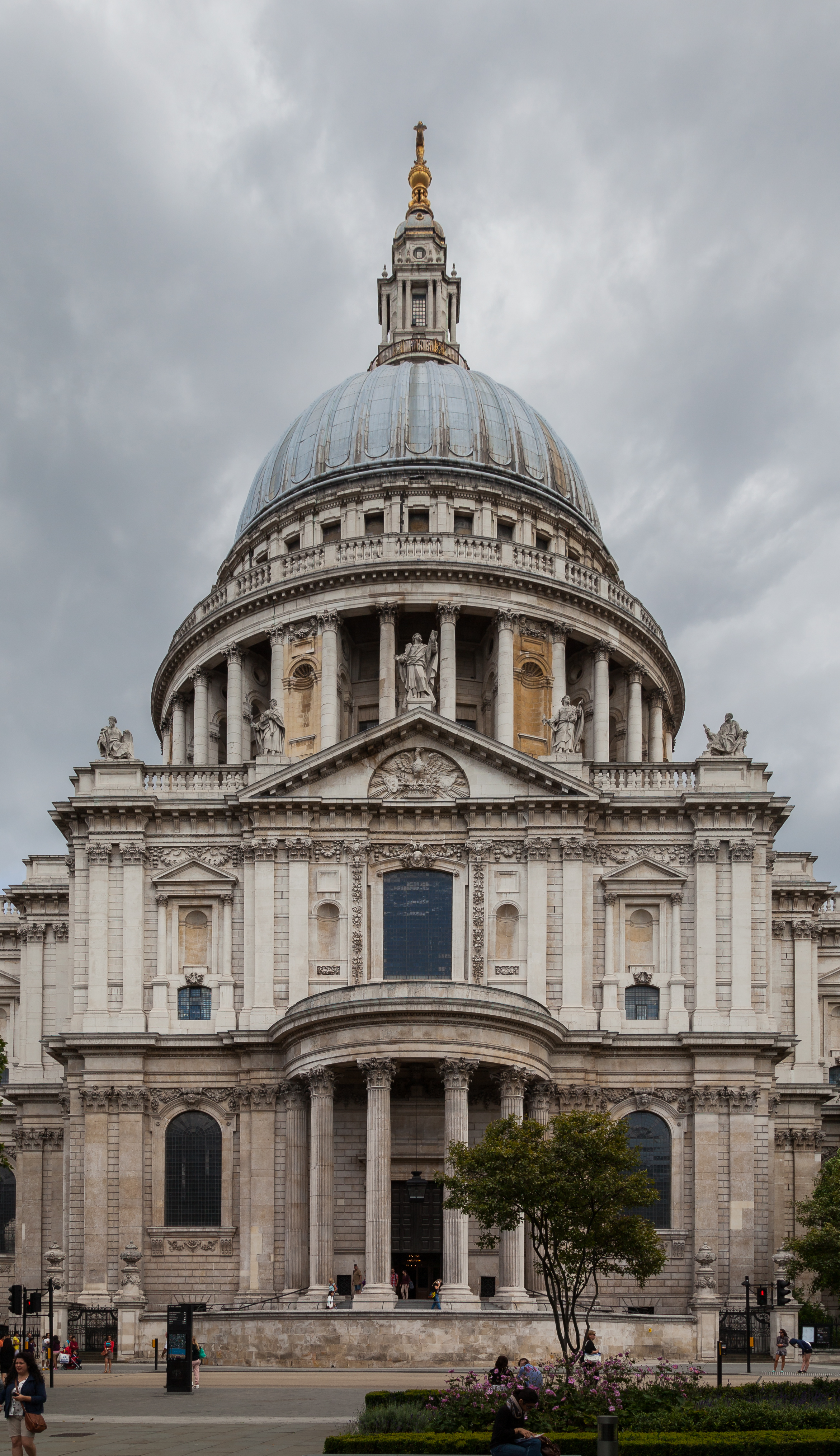 St Paul's Cathedral, London, England